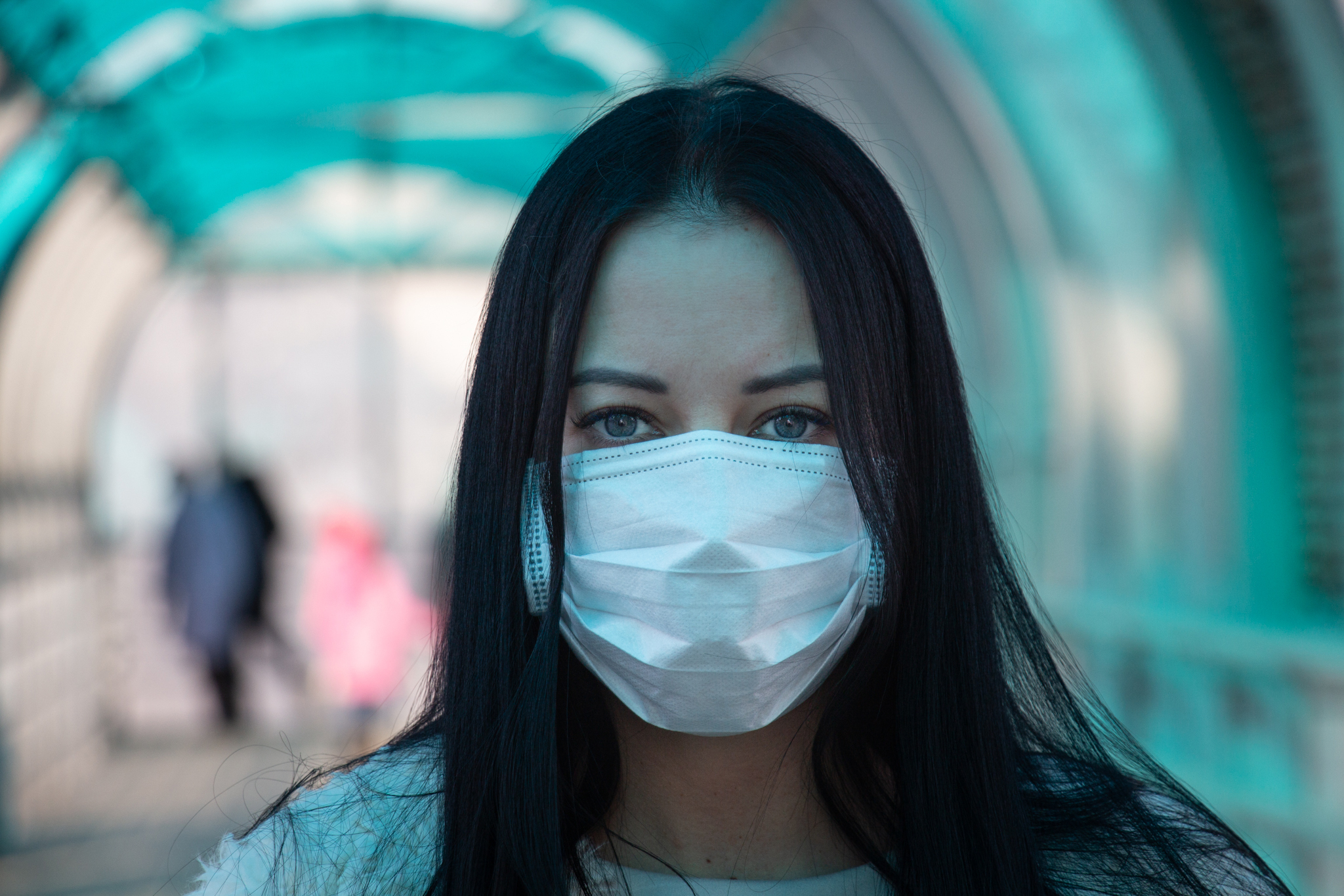 Girl in a medical mask on the street during the coronavirus epidemic in Russia